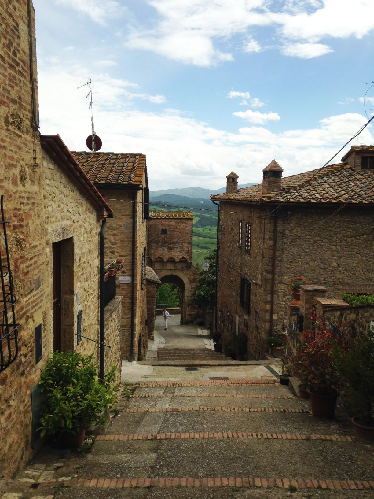 Cobblestone streets of the village of Radicondoli in Tuscany